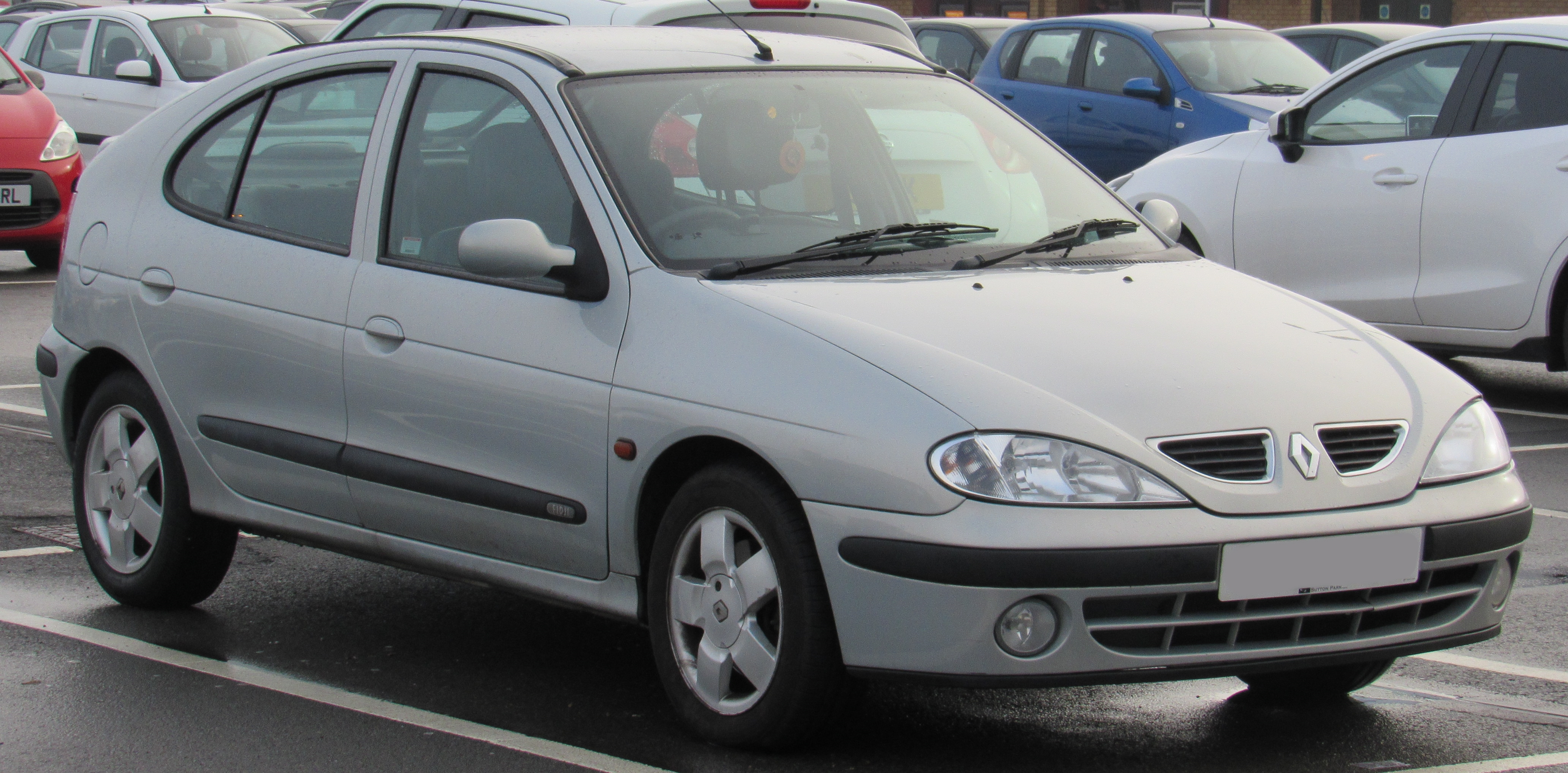 2002 Renault Megane Fidji 16V 1.6 Front Taken in Leamington Spa